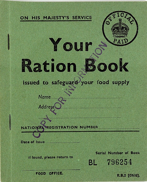 Sample Child's Ration Book. Throughout the 1940s (and for nine years after the end of the war) every man woman and child in Britain owned ration books of coupons for food and clothing. The Ministry of Food's carefully formulated diet is generally believed to have improved the nation's health. Date: World War Two Our Document Reference: BT 131/40 This image is from the collections of The National Archives. Feel free to share it within the spirit of the Commons. For high quality reproductions of any item from our collection please contact our image library.